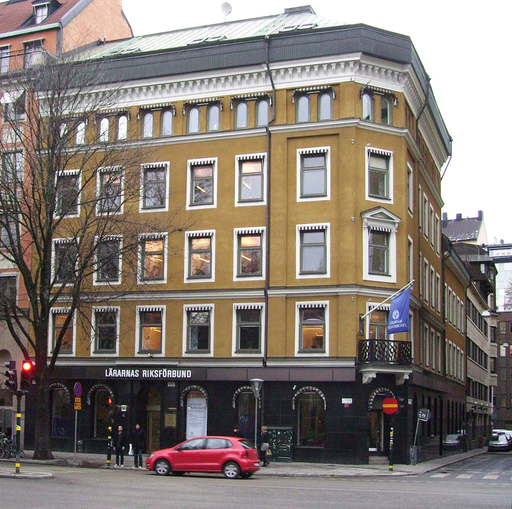 Lärarnas riksförbund in Stockholm